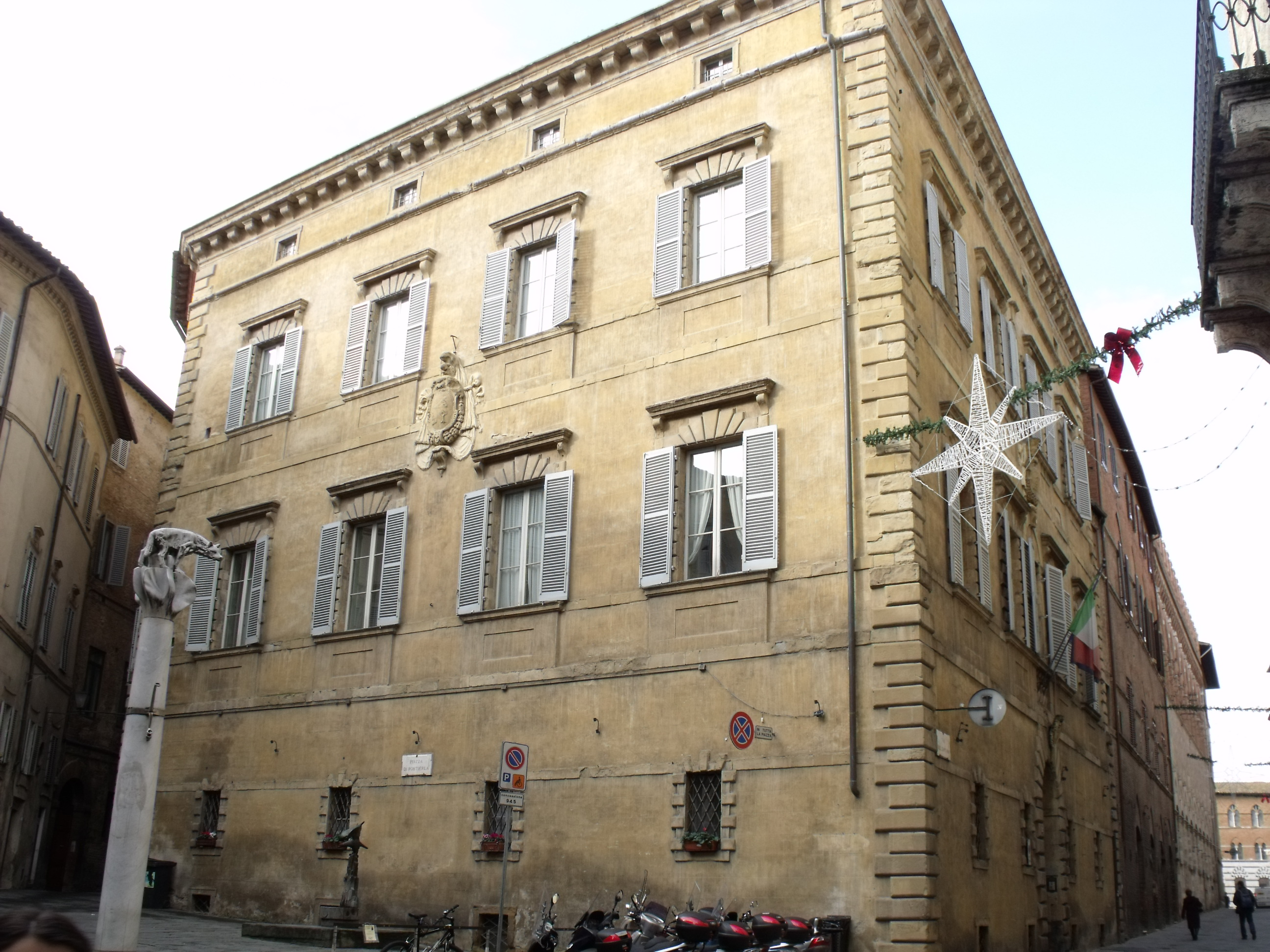 The Palazzo Chigi-Piccolomini alla Postierla at the Quattro Cantoni in Siena, Tuscany, Italy